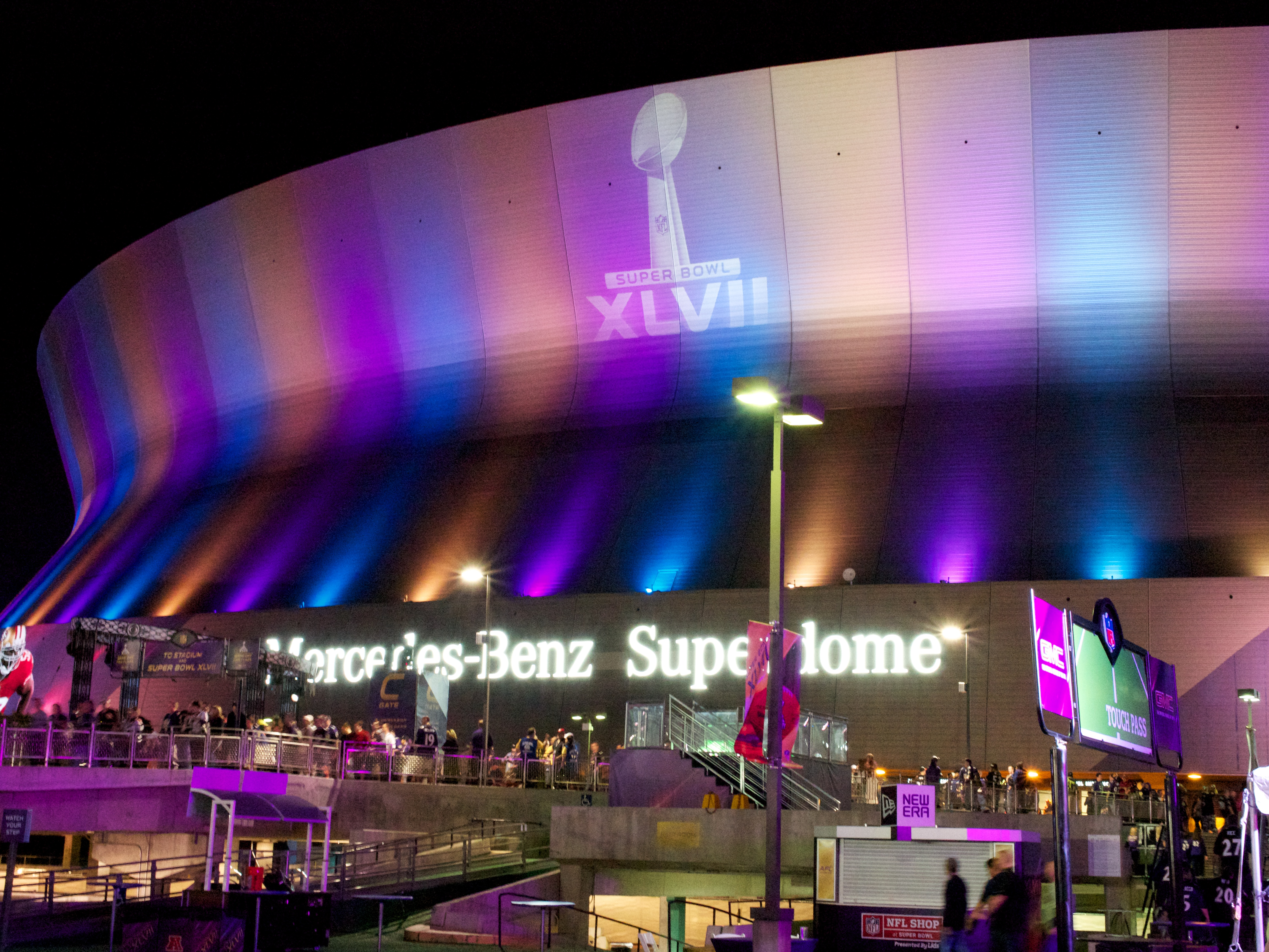 The Mercedez-Benz Superdome in New Orleans, Louisiana immediately following Super Bowl XLVII, on February 3, 2013.